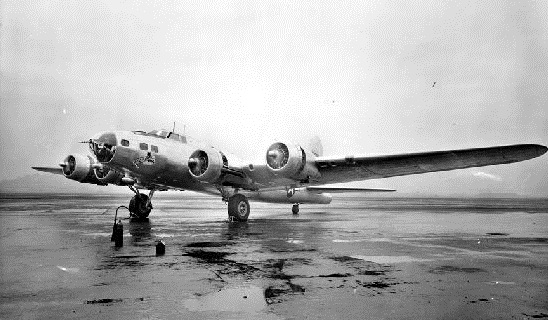 Left 3/4 front view of Boeing XC-108, the transport version of the B-17 Flying Fortress bomber, used s a transport by General MacArthur.